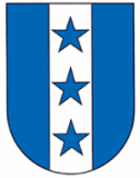 Blazon of Münchwilen, Canton of Thurgau, SwitzerlandEsperanto: Blazono de Münchwilen, Kantono Turgovio, Svislando